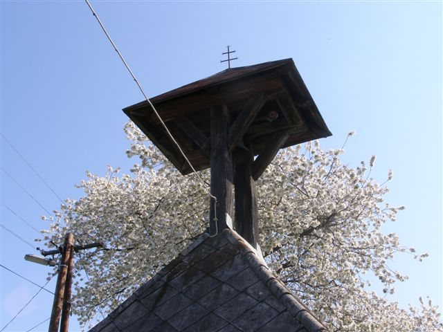 The Belfry of Ritkaháza (other image)